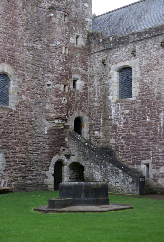 Doune Castle (Scotland) - courtyard: well and stairs